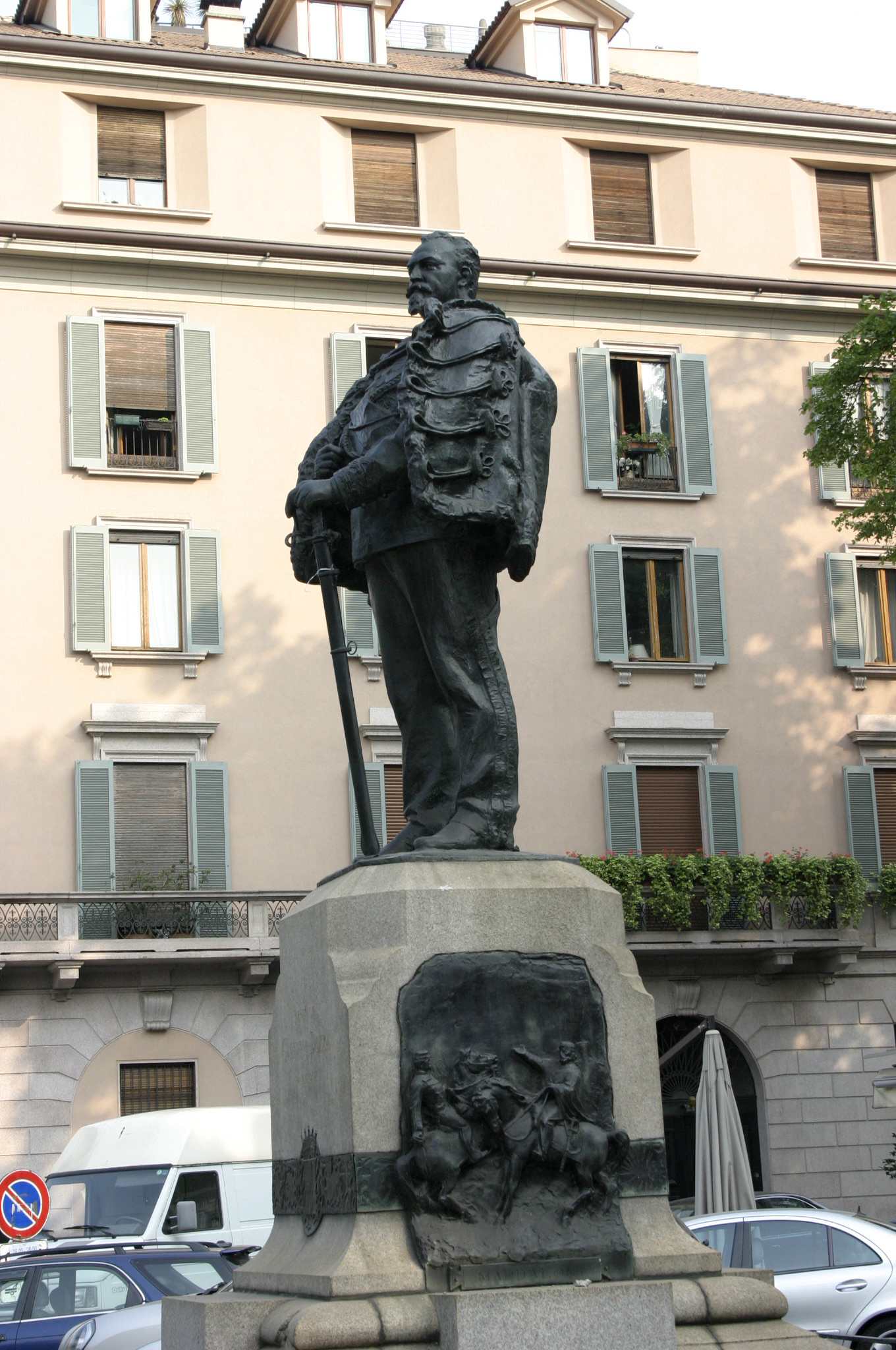 Enrico Cassi (1863-1913), Monument to garibaldine general Giuseppe Dezza (1912), facing an entrance of the "Giardini pubblici di Porta Venezia" gardens, in Milan, Italy. Picture by Giovanni Dall'Orto, April 22 2007. Il monumento / The monument (1912) Il monumento / The monument (1912) Maddaloni. Rilievo / Relief. Palermo. Rilievo / Relief. Retro / Back view.